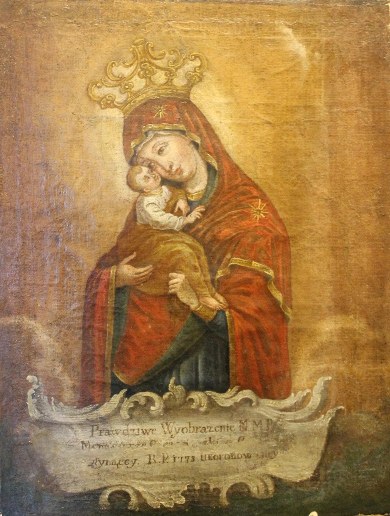 The Catholic icon of the Holy Mary of Pochaiv. The 2nd half of the 19th c. From the collection of Radomysl Castle, Ukraine